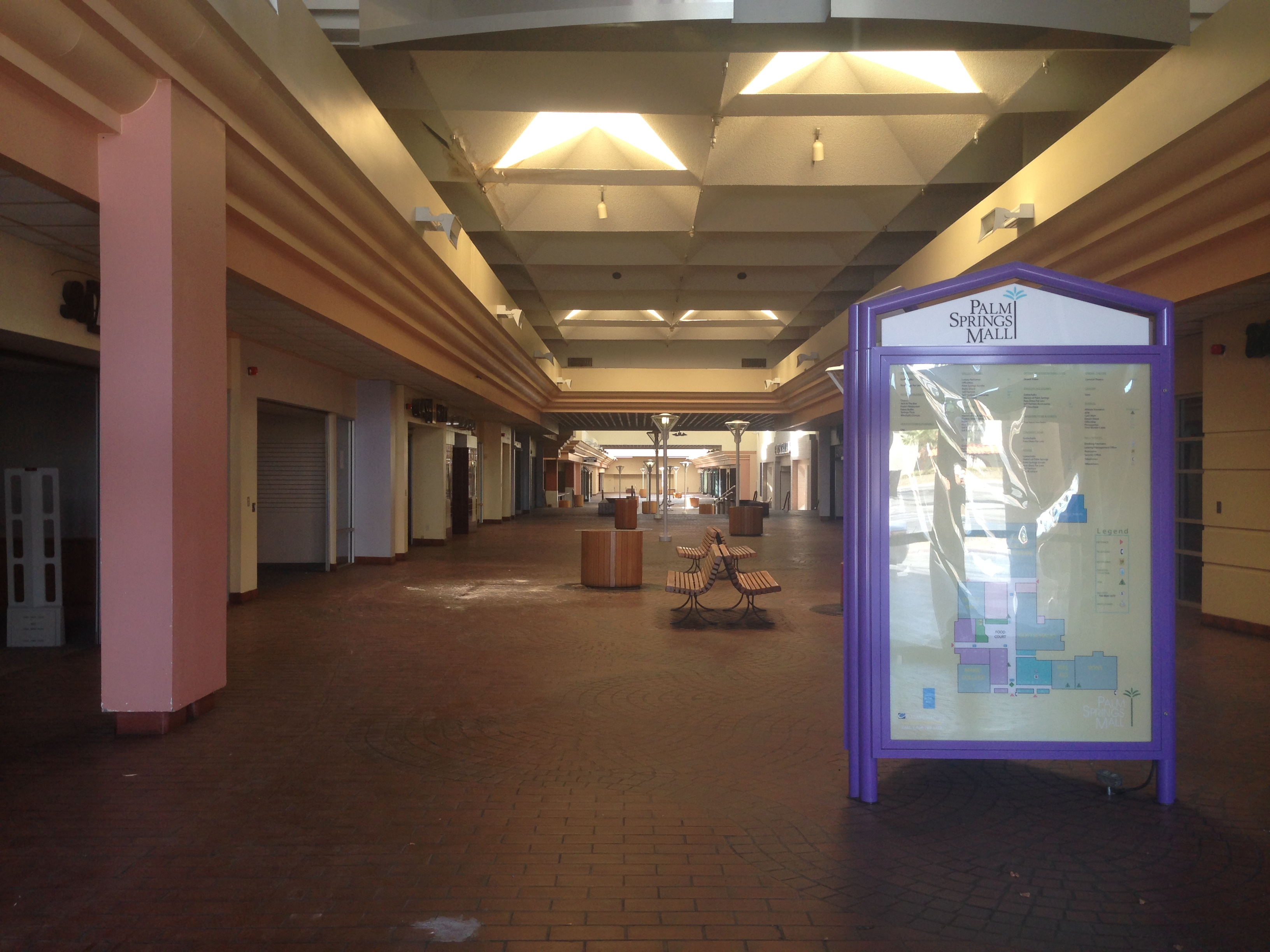 Empty storefronts inside the closed Palm Springs Mall in Palm Springs, California.